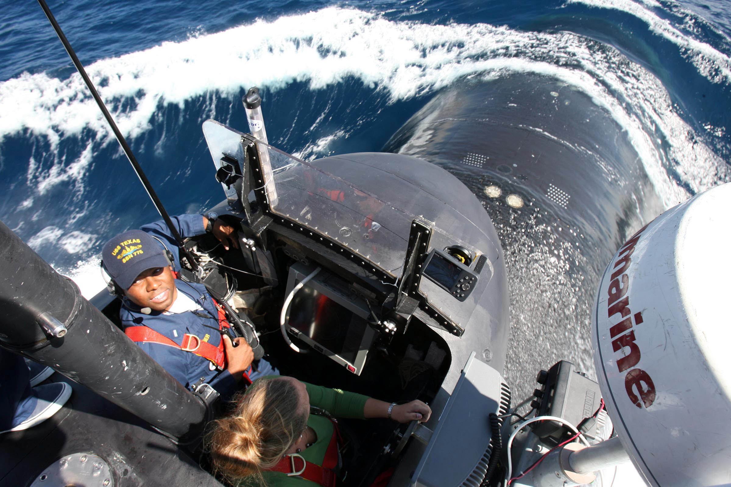 Port Canaveral, Fla. (Aug. 25, 2006) – Officer of the Deck (OOD) Lt. Junior Grade Darrin Barber, left, heads out to sea aboard the Virginia-class submarine USS Texas (SSN 775) with group of local and national media. Texas and other Virginia-class submarines are able to attack targets ashore with highly accurate Tomahawk cruise missiles and conduct covert long-term surveillance of land areas, littoral waters or other naval forces. Other missions include anti-submarine and anti-ship warfare, special forces delivery and support, mine delivery and minefield mapping. U.S. Navy photo by Mass Communication Specialist 2nd Class Roadell Hickman (RELEASED)